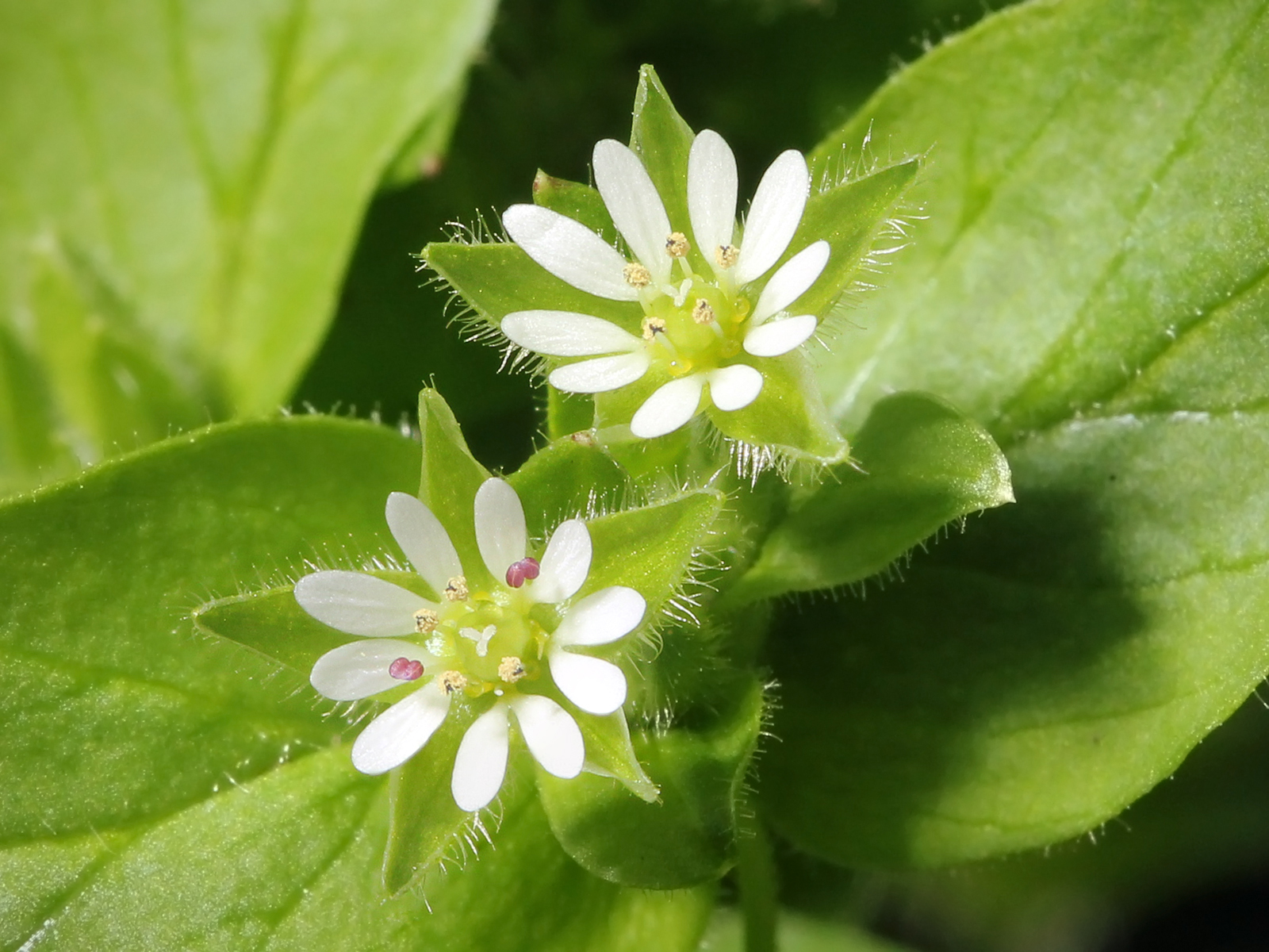 Common Chickweed (Stellaria media) in Nashville, Tennessee. Each flower is approximately 5 mm across. Focus stacked from two images.